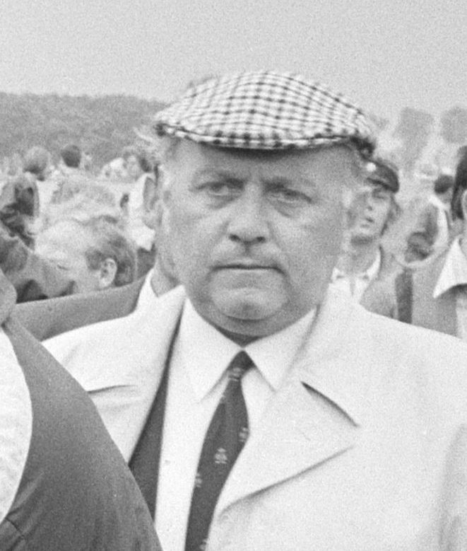 Commentator Frans Henrichs during the Dutch TT 1971